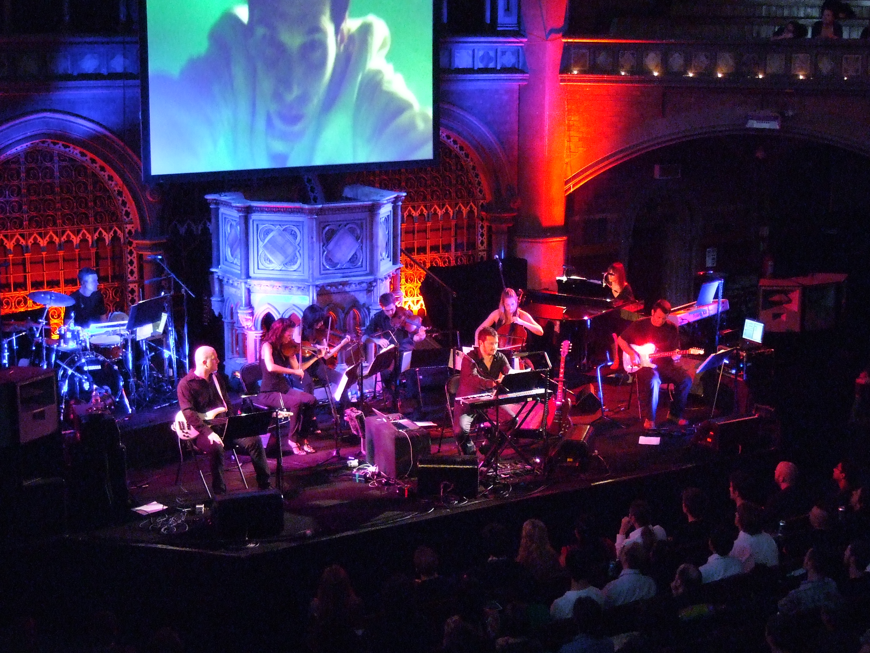 English composer Clint Mansell with the Sonus Quartet, playing in Union Chapel, London